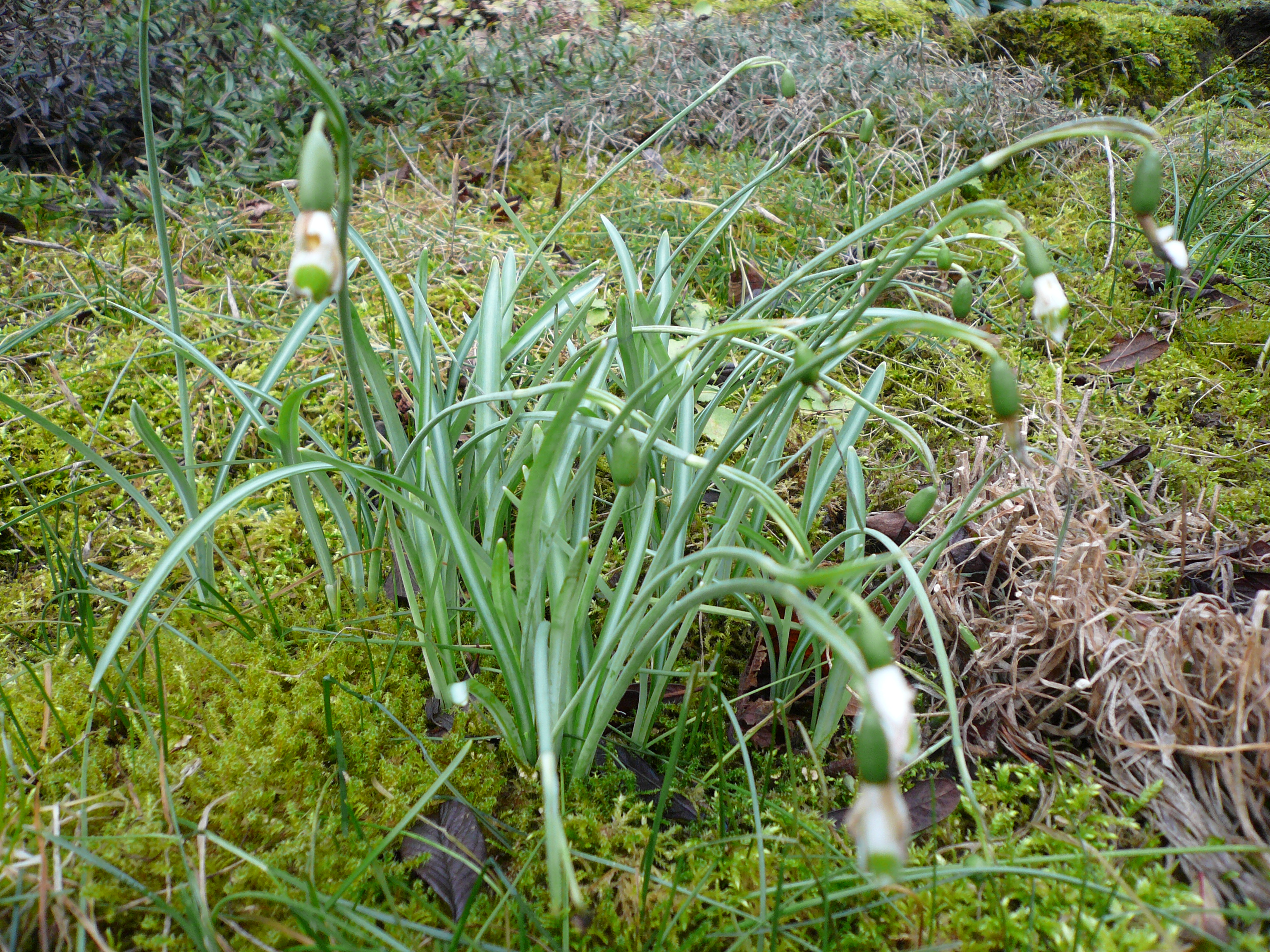 Galanthus reginae-olgae in leaf